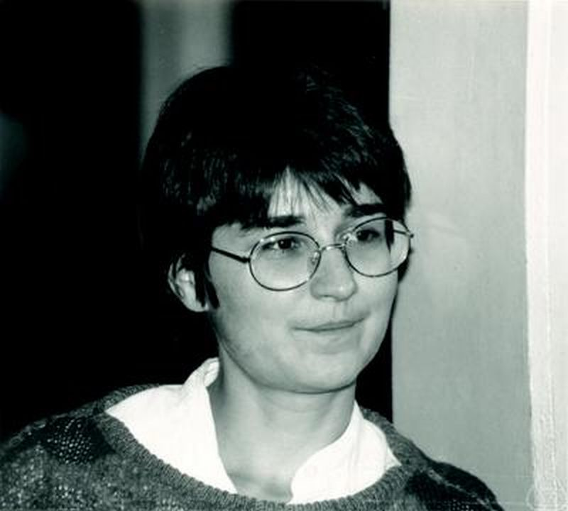 Elisabeth Bouscaren, Oberwolfach 1988